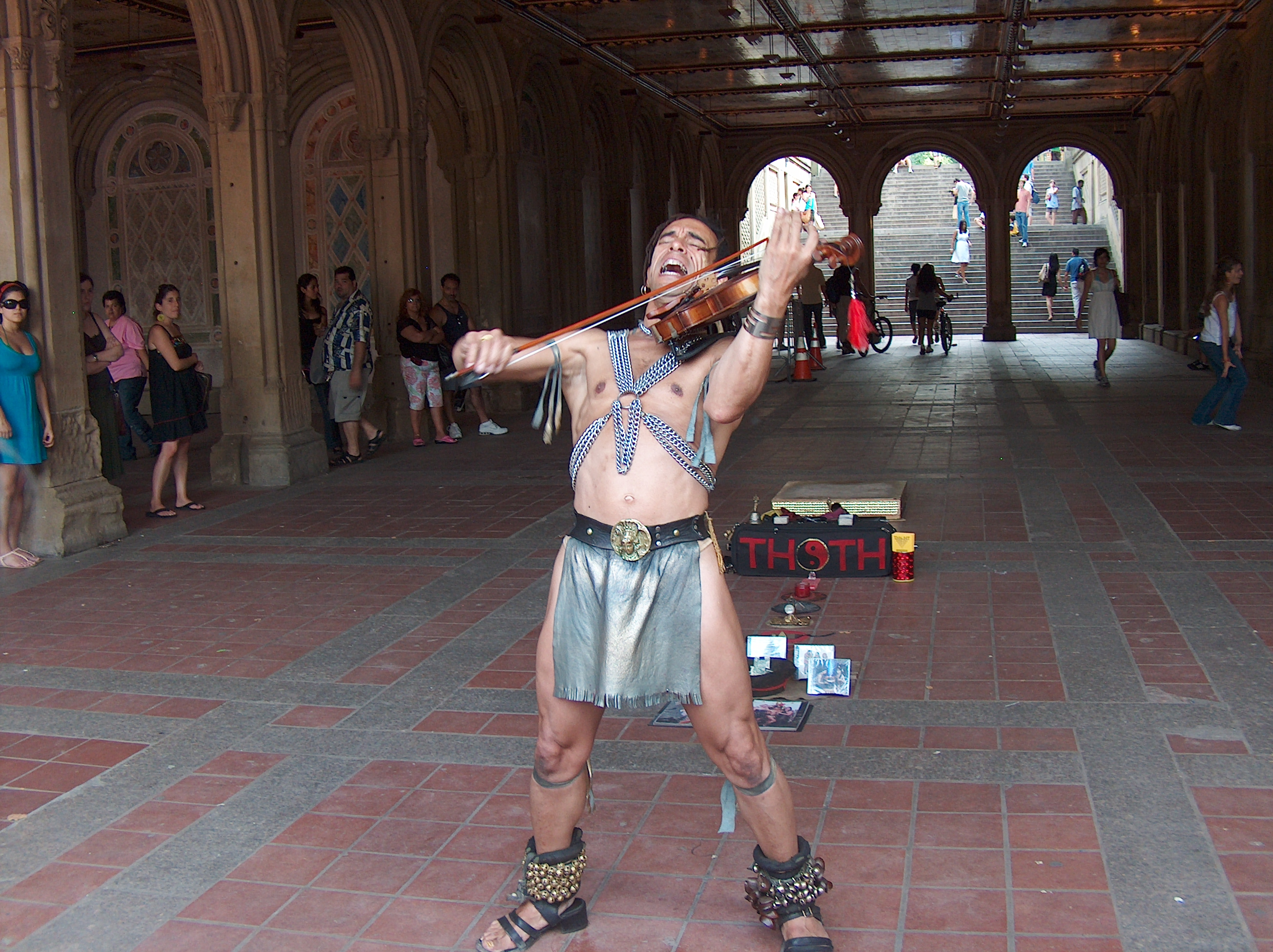 Thoth during a performance in New York City.